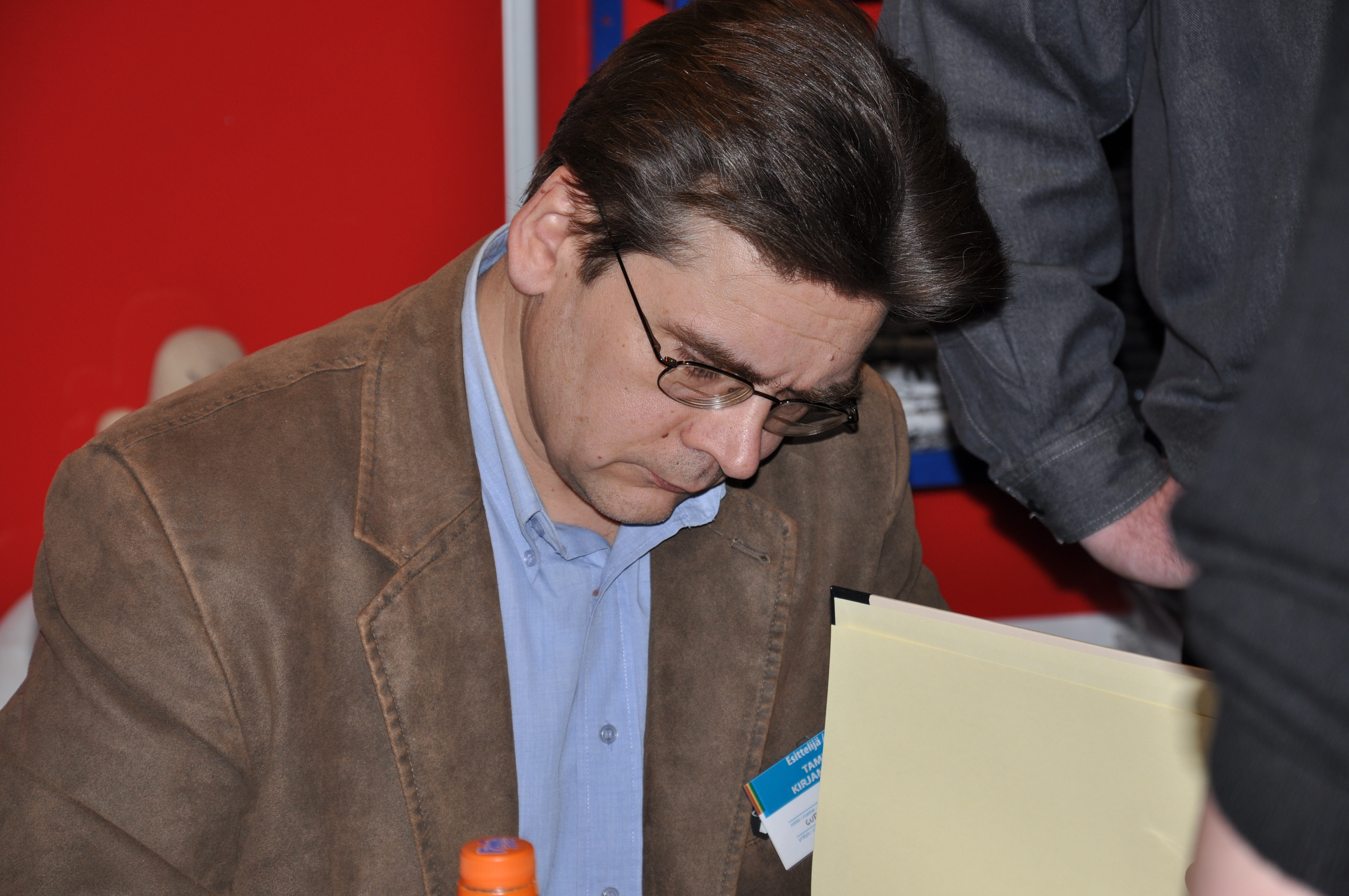 Finnish cartoonist Ilkka Heilä signing his books at the Tampere Book Fair.